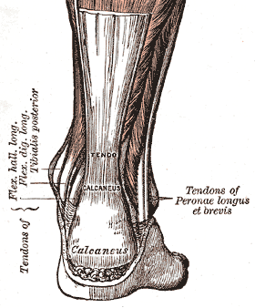 Muscles of the back of the leg. Superficial layer.